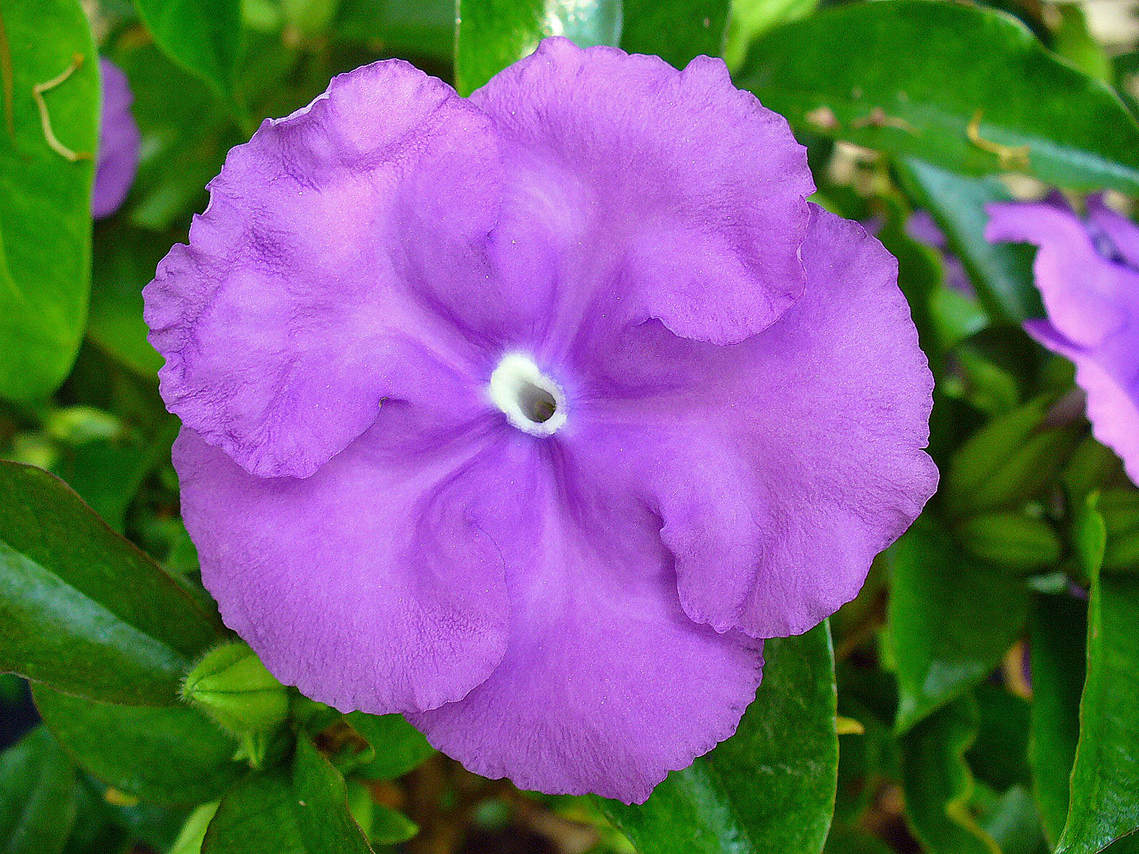 Brunfelsia latifolia, Yesterday-Today-and-Tomorrow, Morning-Noon-and-Night,Kiss Me Quick, Brazil Raintree, flower; Stutensee-Staffort, Germany.